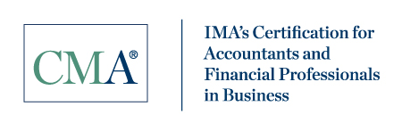 logo file